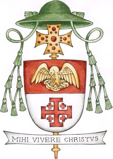 Coat of arms of His Excellence Fernando Natalio Chomalí Garib, Archbishop of Most Holy Conception of Virgin Mary (Concepción city, Chile)